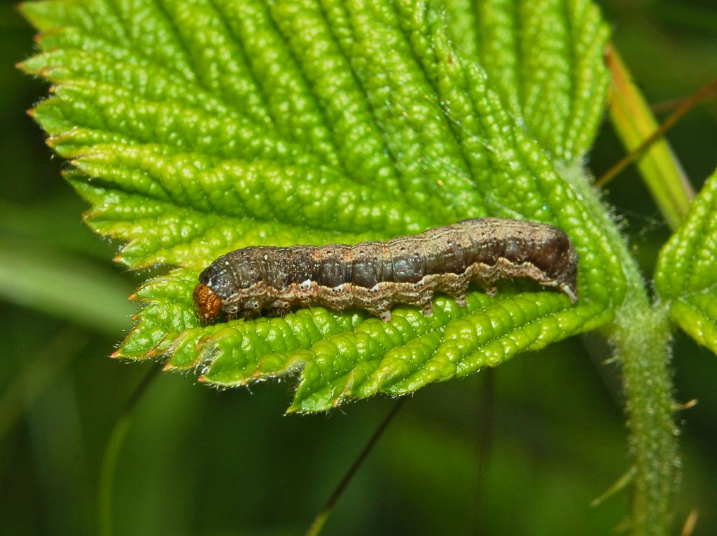 Orthosia munda